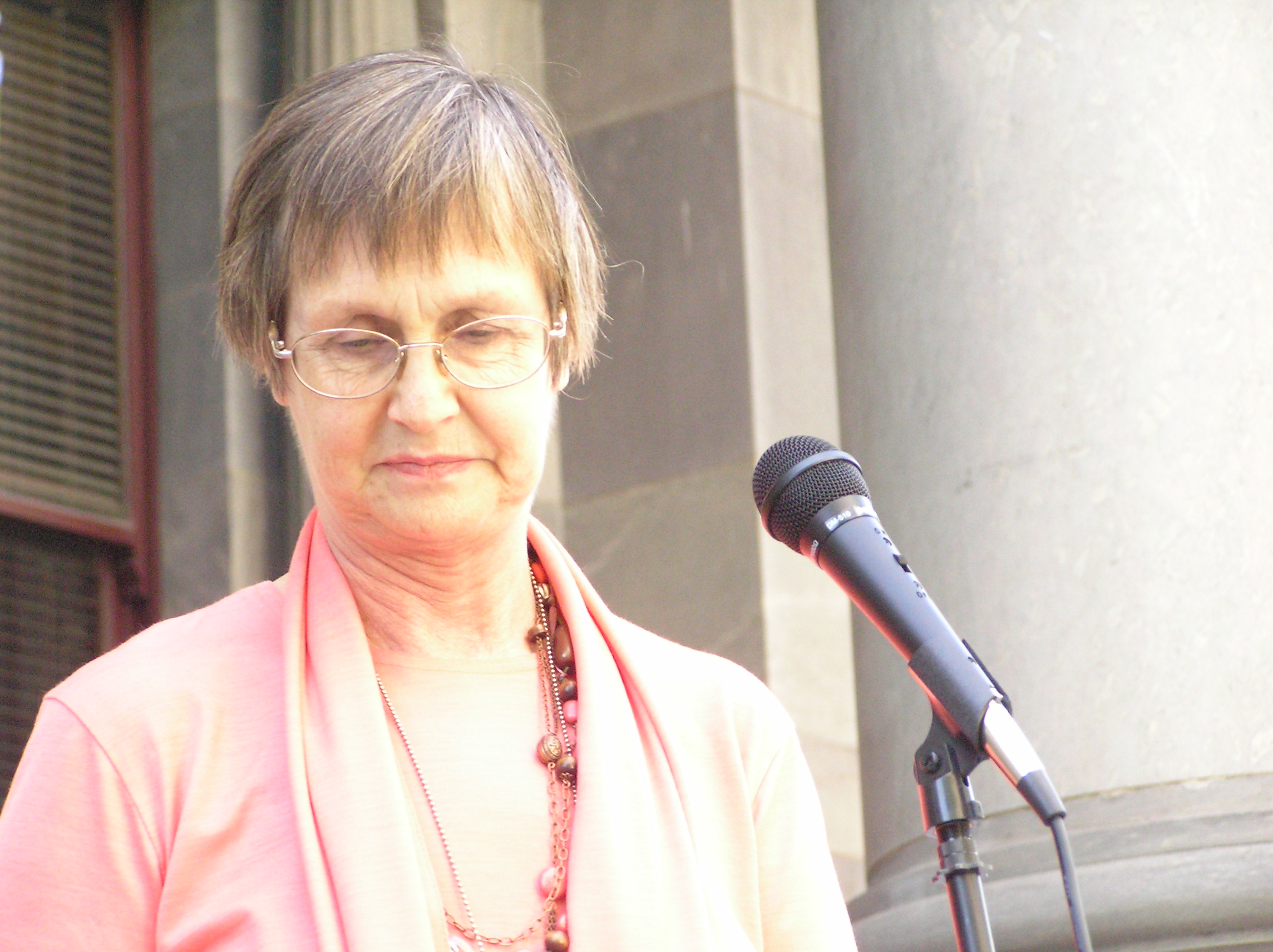 Sandra Kanck MLC